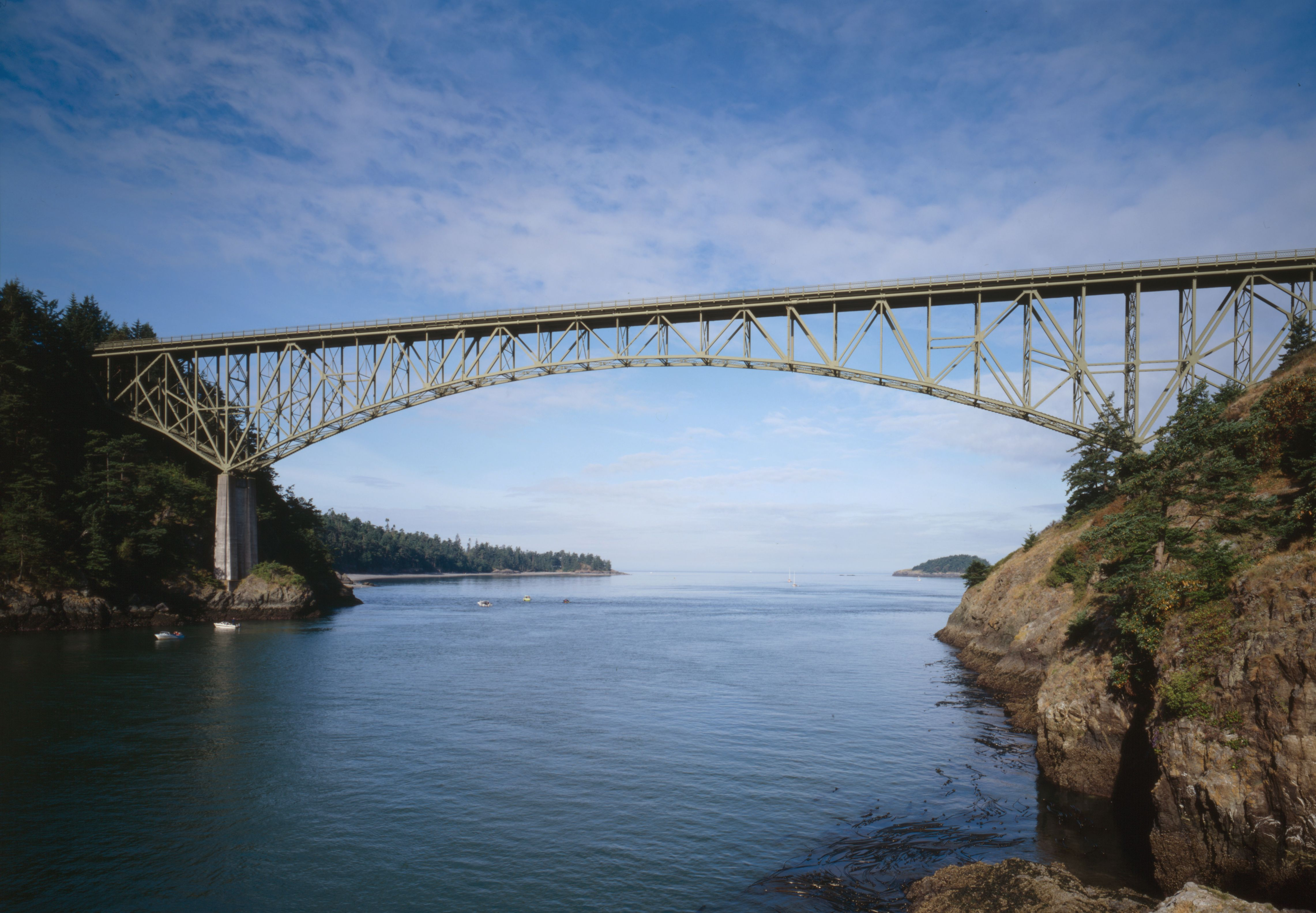 Deception Pass Bridge, Spanning Deception Pass at State Route 20, Anacortes vicinity, Skagit County, WA. Looking West from water level.